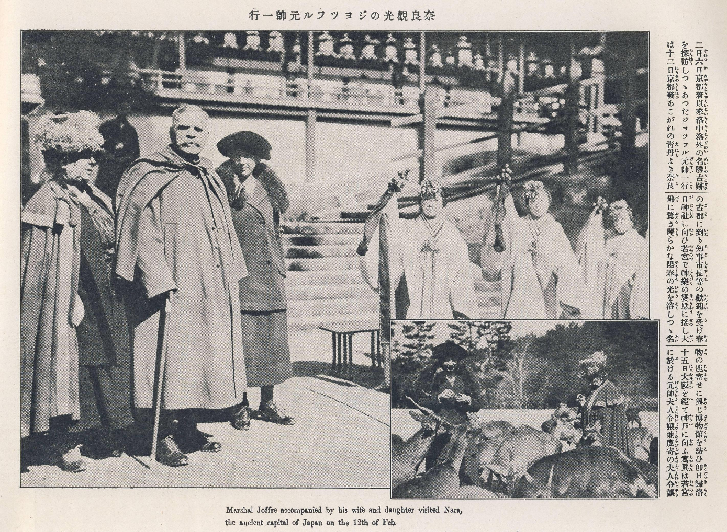 "Marshal Joffre accompanied by his wife and daughter visited Nara, the ancient capital of Japan on the 12th of Feb." [1922] .